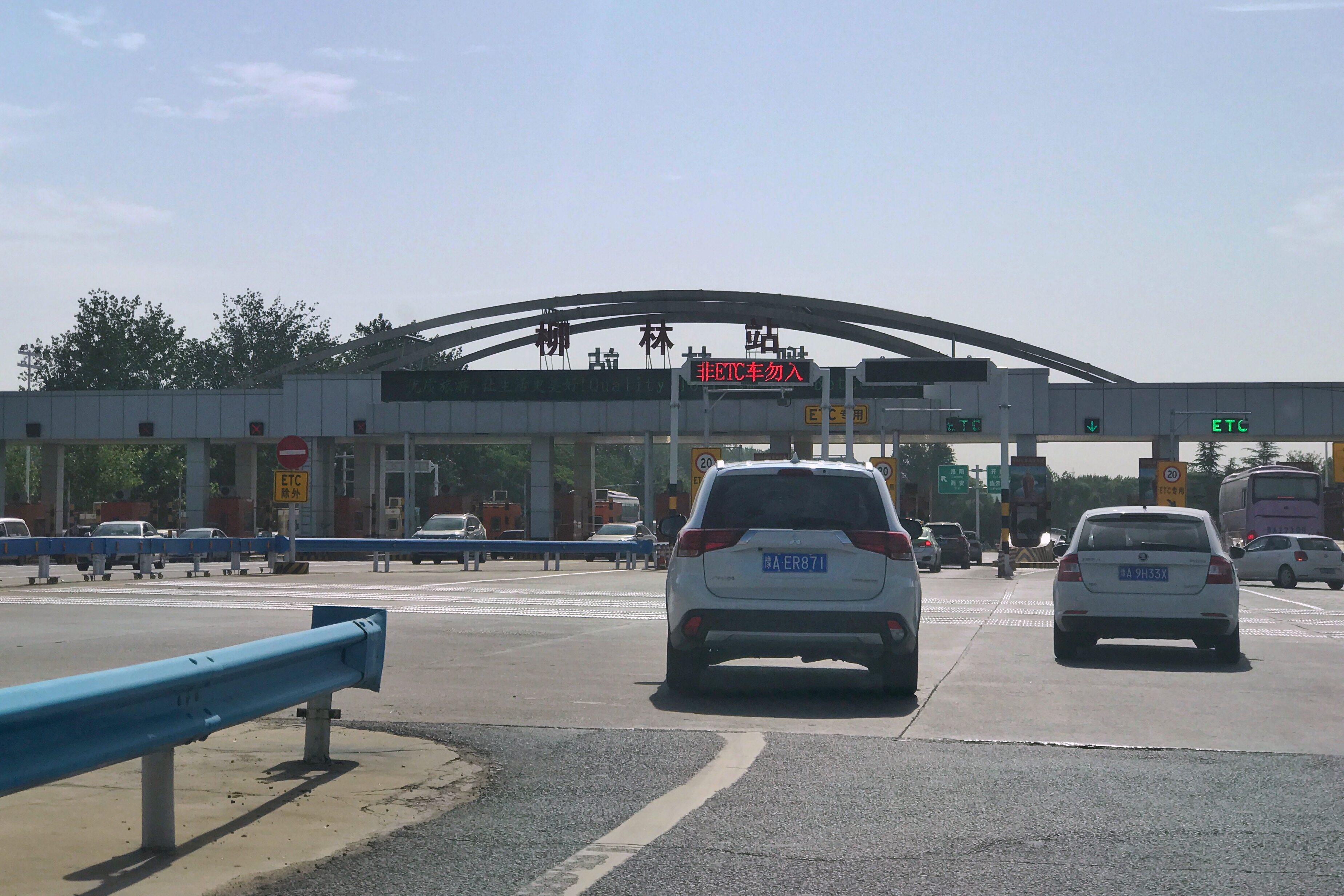 G30 Lianhuo Expwy Liulin toll station